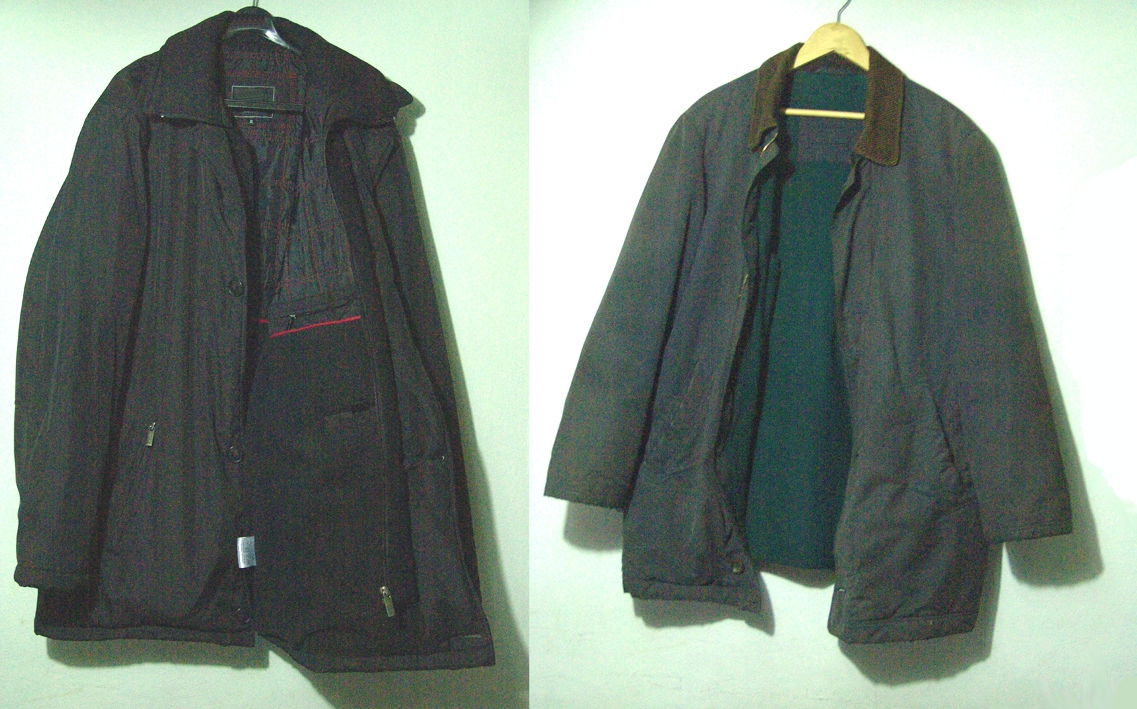 Two nowadays parkas